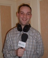 Dáithí Ó Muirí, Presenter, 'Glór Anoir', RTÉ Radio na Gaeltachta, 2005